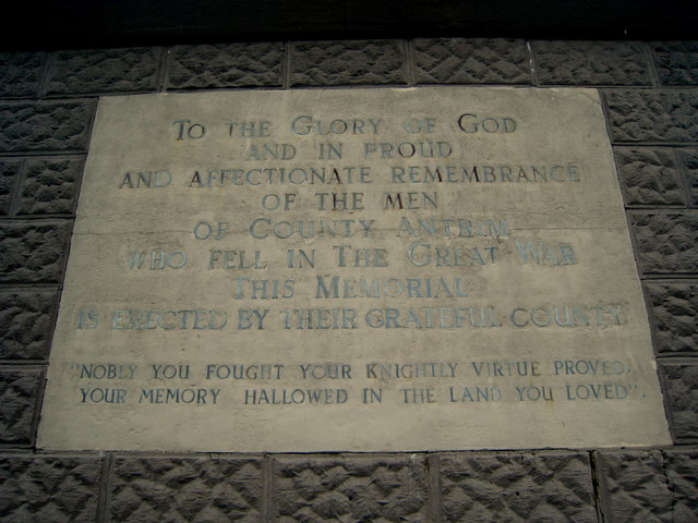 County Antrim War Memorial (Knockagh Monument) [detail] Inscription on the side of the County Antrim War Memorial seen in 652849